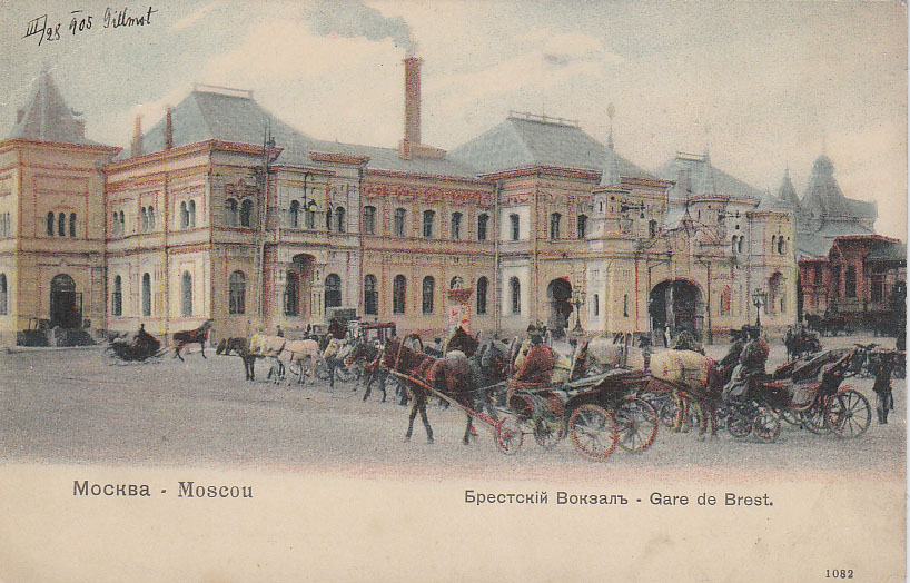 pre-revolutionaty russian postcard of Brestsky (Belorussky) Rail Terminal